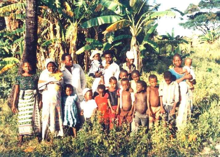 children on Pemba